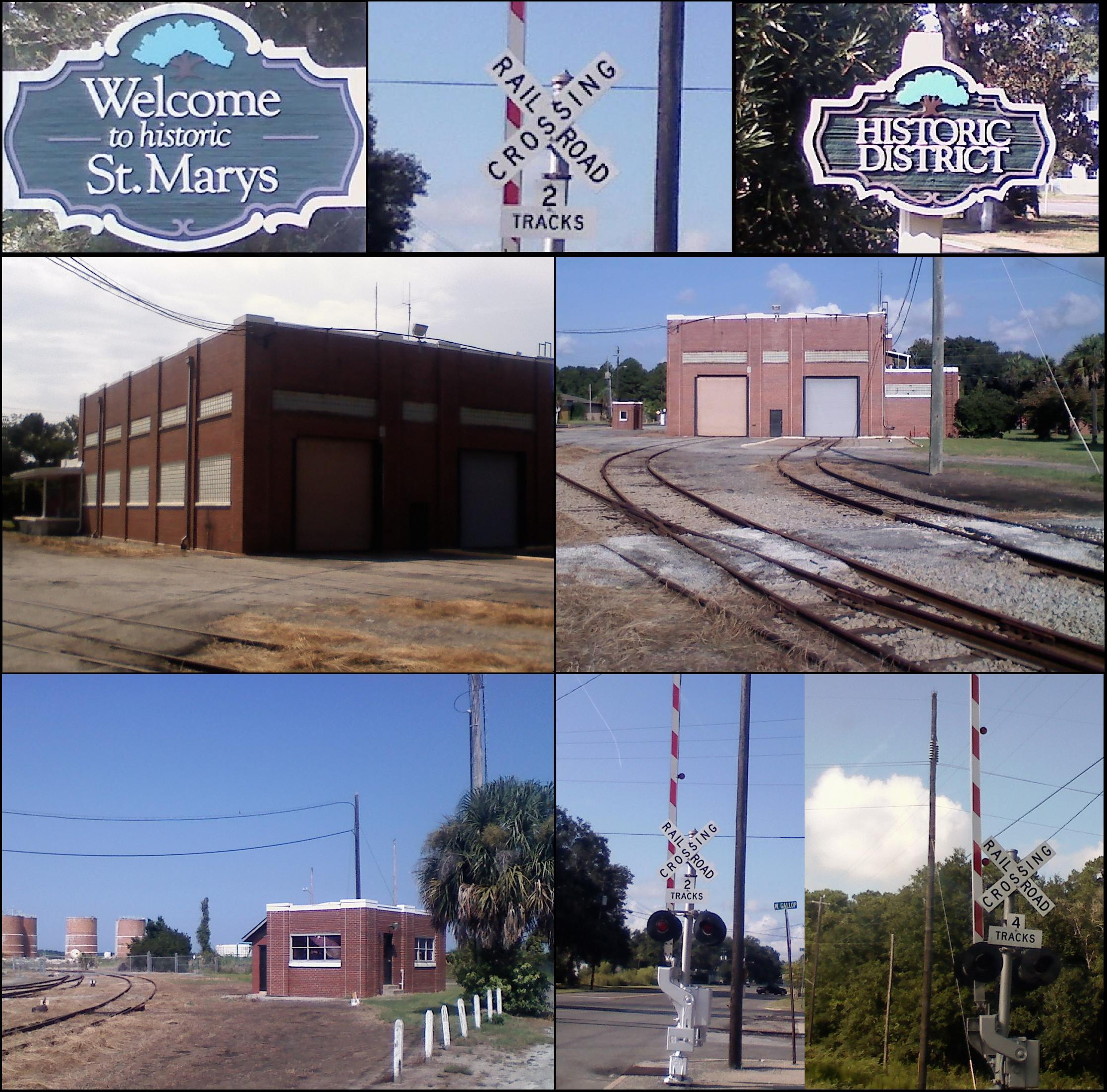 Montage of photos I took of the St Marys GA railroad property